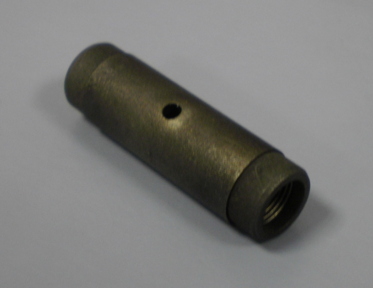 L'vov graphite furnace for electrothermal atomic spectrometry